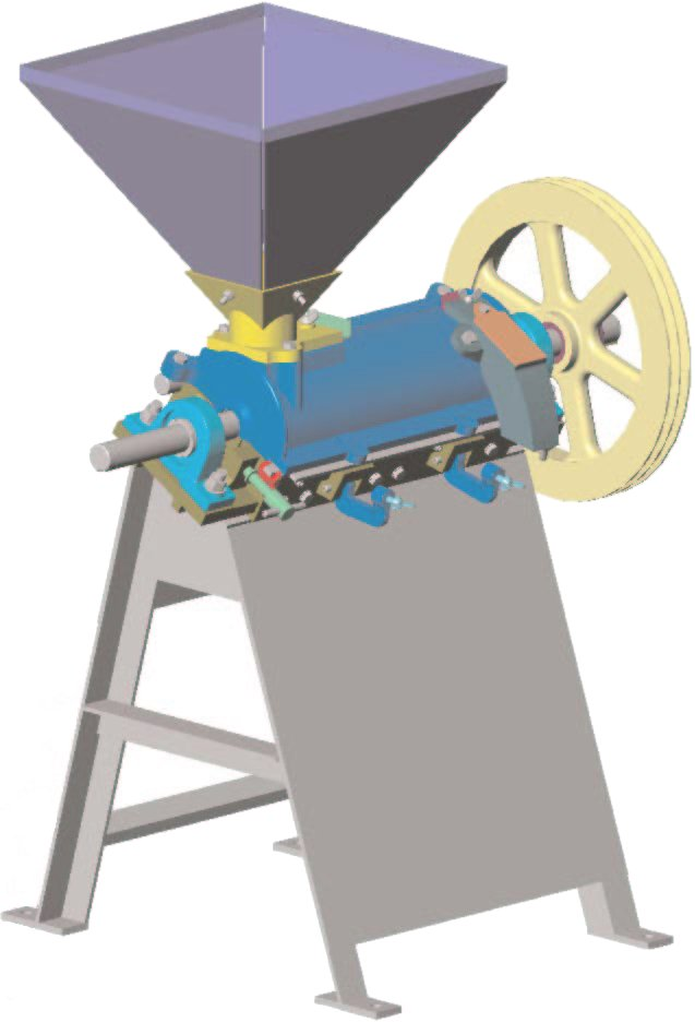 An image of the ISF_IAI rice huller. This rice huller, built by Ingénieurs Sans Frontières-IAI, can use either a fuel or electricity to drive the engine and thus hull the rice grain (unlike commercial rice hullers). Parts too can be replaced when worn.